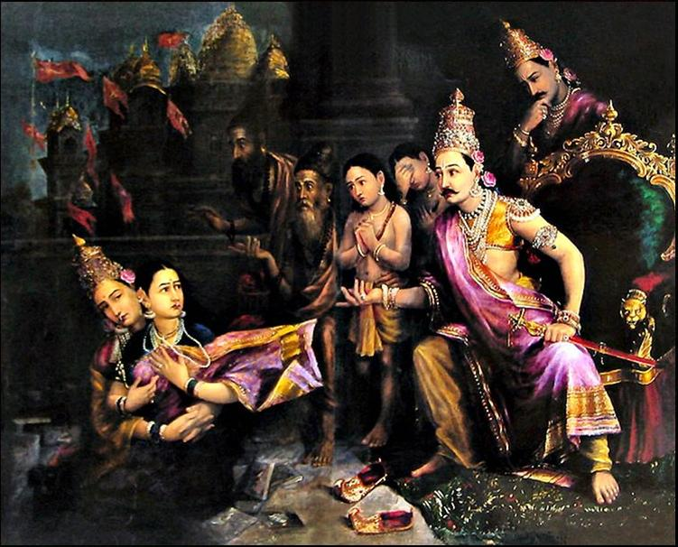 Sreerama's court from where Goddess Earth is taking Sita deep down to earth